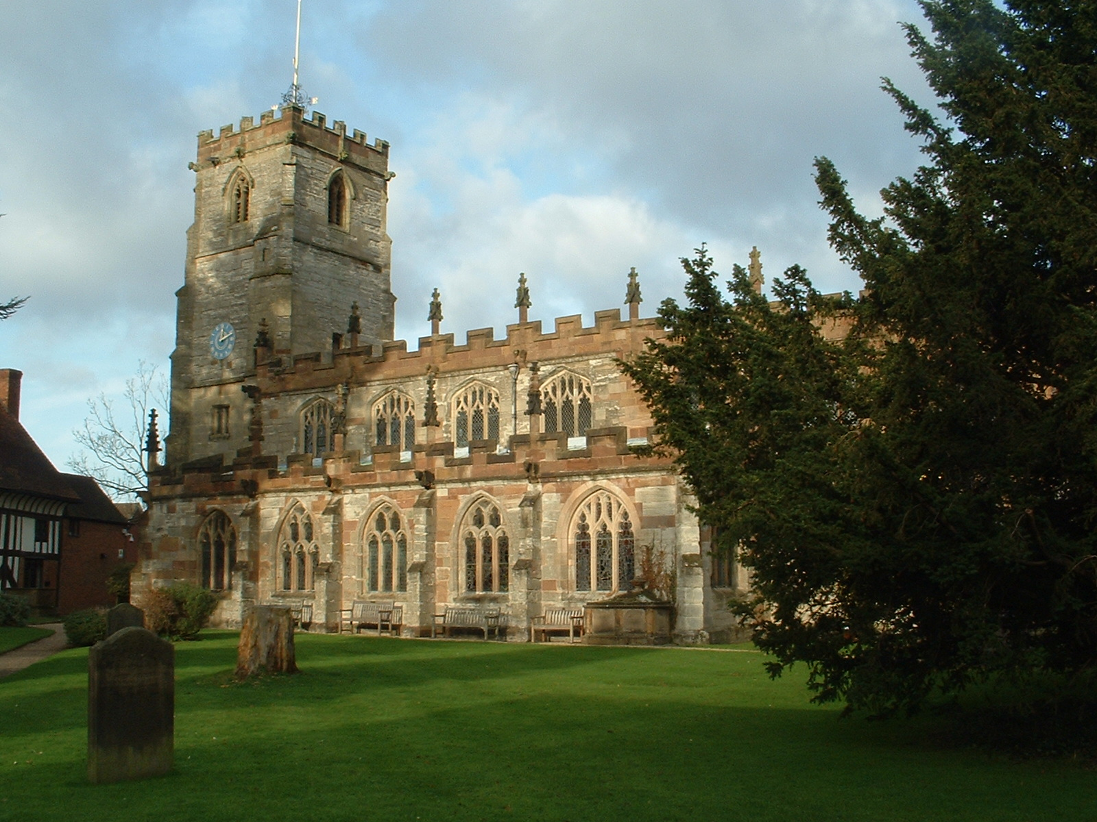 Church of St. John the Baptist, St. Lawrence and St. Anne, Knowle, Warwickshire. Taken by Necrothesp, 15 December 2005.